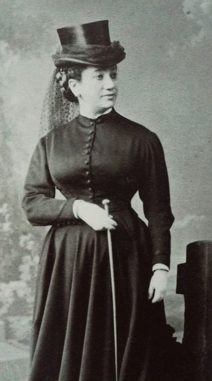 Esther Lachmann alias Thérèse Lachmann, later marquise de Païva.